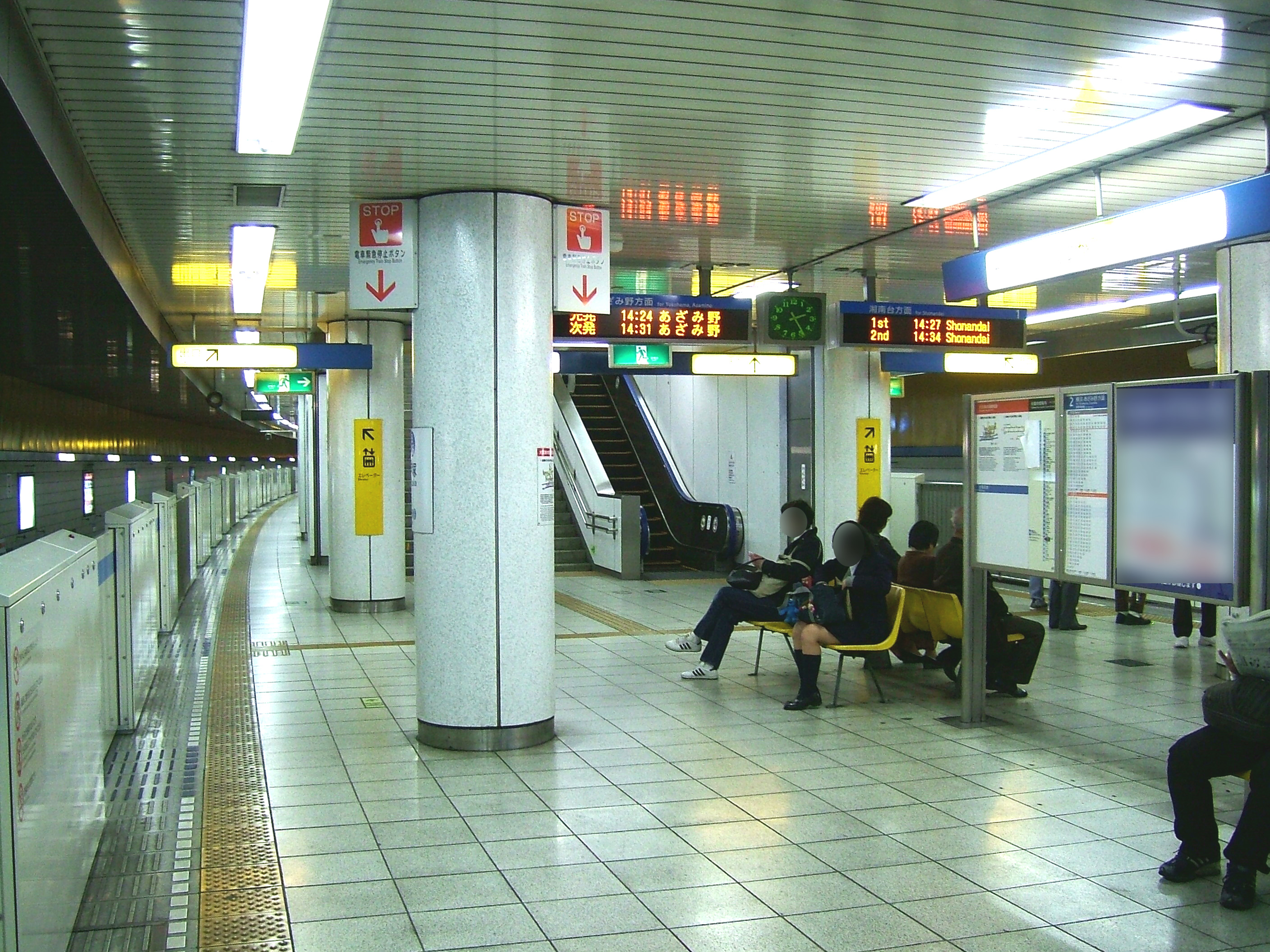 The platform at Totsuka Station on the Yokohama Municipal Subway Blue Line in the Yokohama, Japan